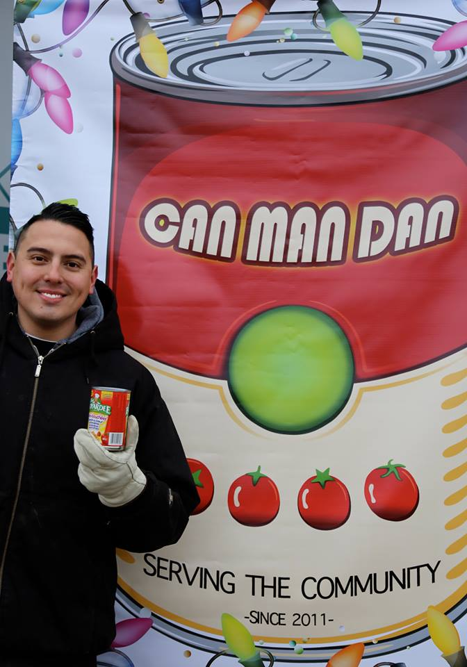 A photo of Can Man Dan that I personally took in 2017. I am a amateur photographer and a big fan of Can Man Dan.